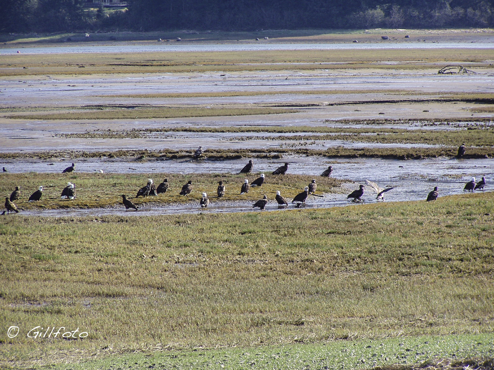 Bald Eagle Spring feed migration at Lemon Creek, Juneau, Alaska. (2003)